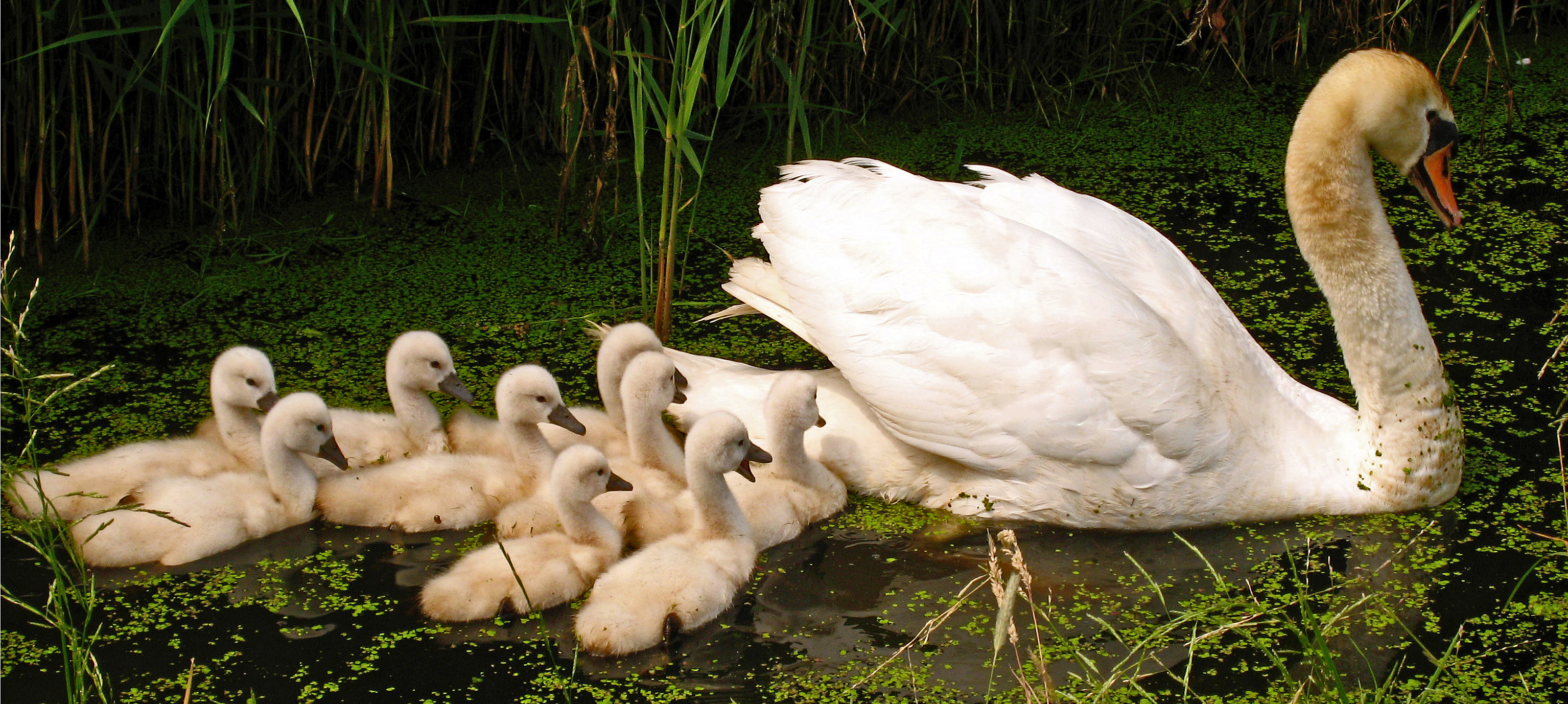 Mute Swan (Cygnus olor) with nine cygnets, picture taken in the vicinity of Ouderkerk aan de Amstel, Holland.